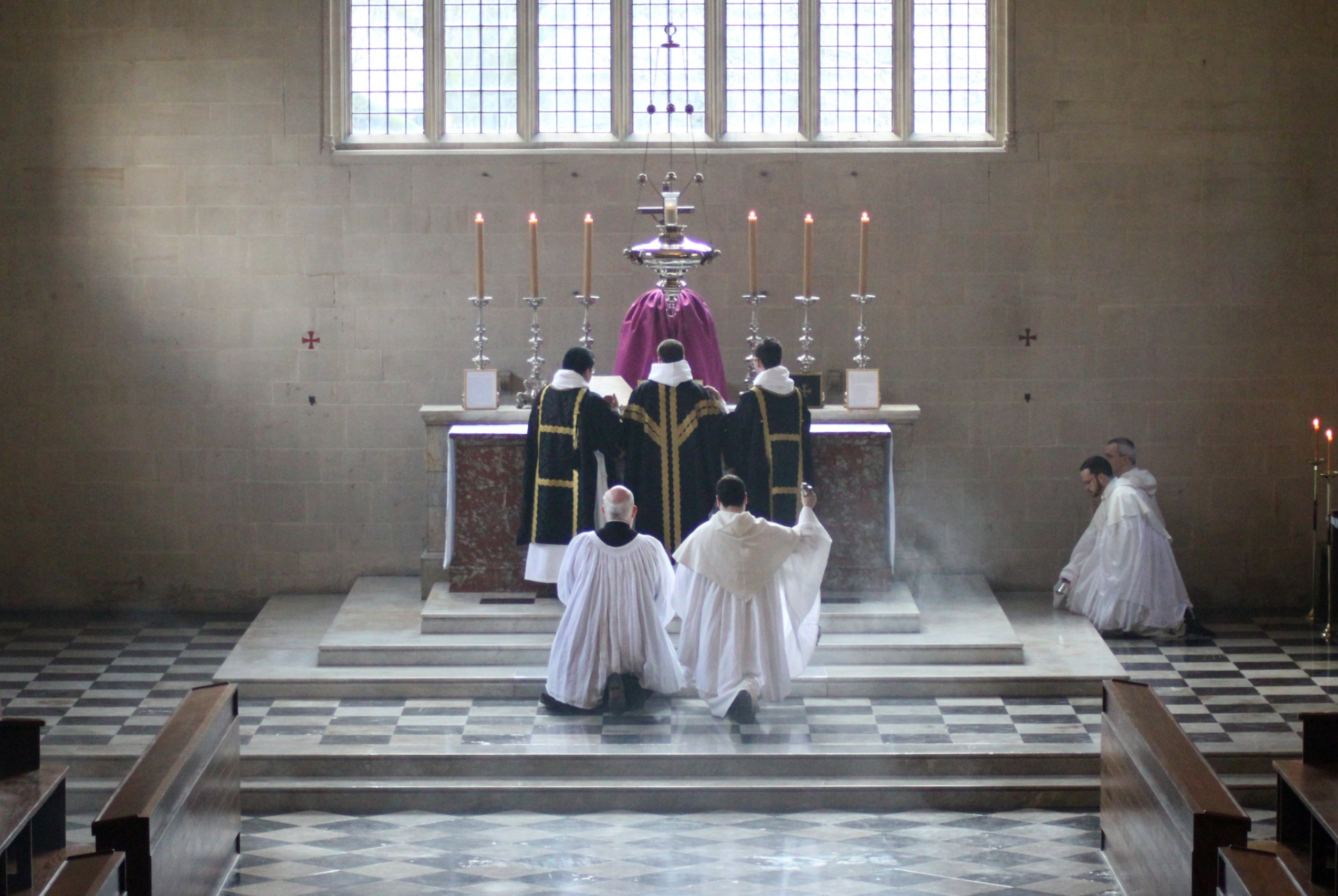 Tridentine Mass.